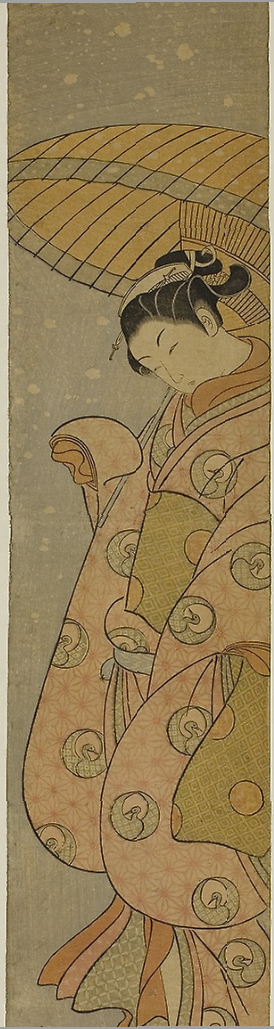 Suzuki Harunobu (1724-1770), "Beauty Under an Umbrella in the Snow" (1764–1770). Clarence Buckingham Collection.